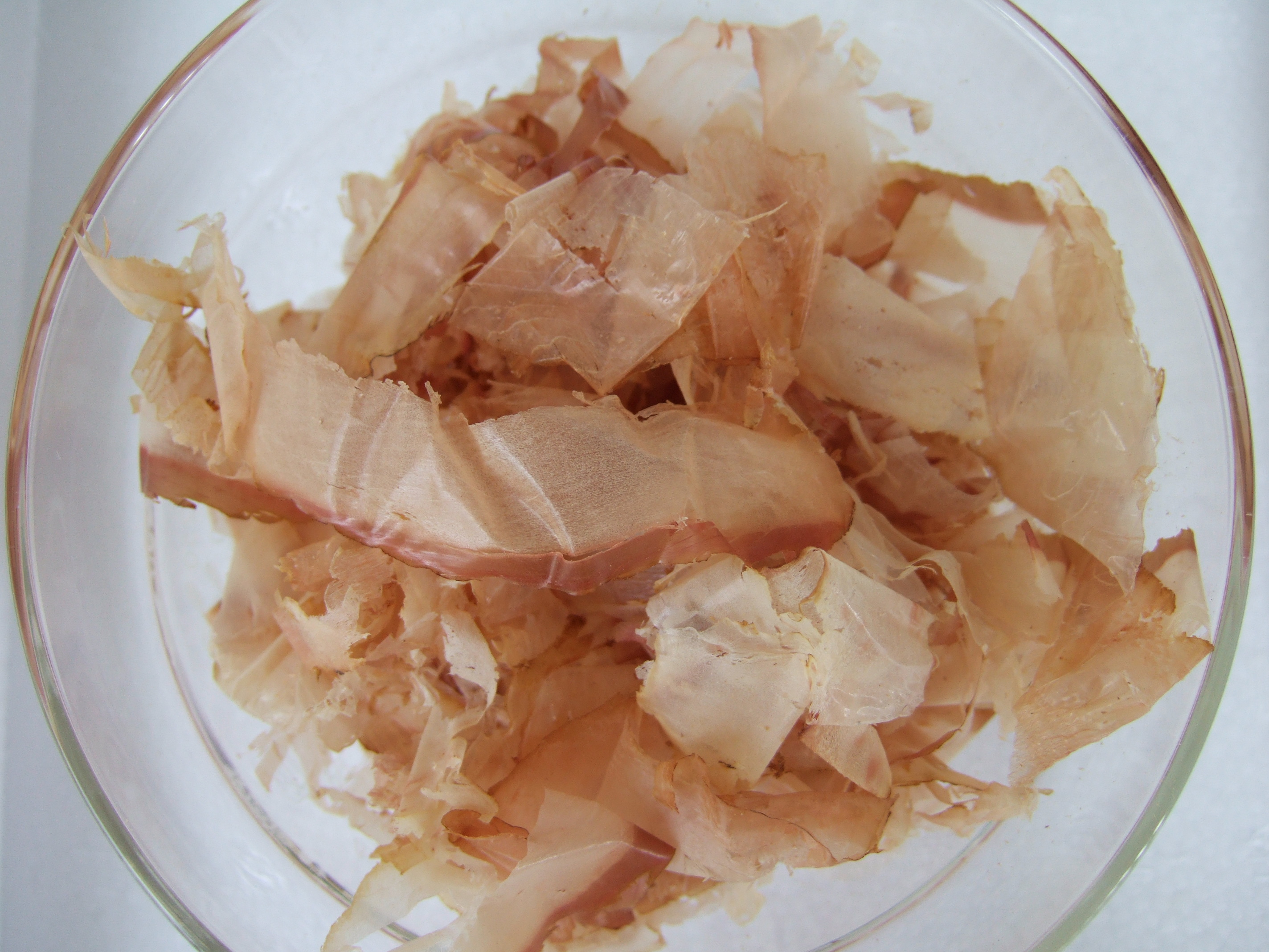 Shavings of Katsuobushi from a package